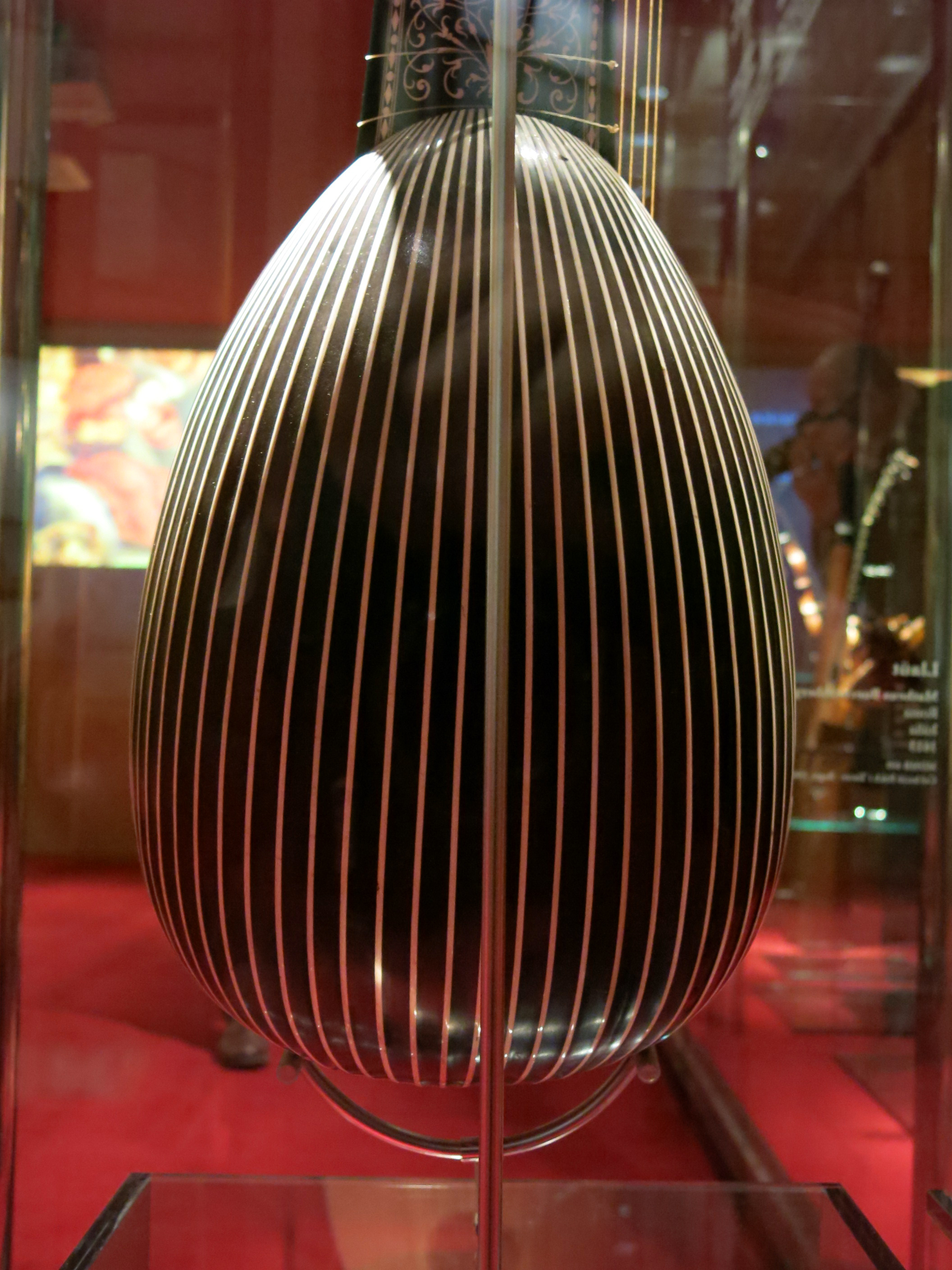 Archlute, Matteo Sellas, Venetia, 1641, Museu de la Música de Barcelona References MDMB 403: arxillaüt, Matteo Sellas (1641). Catalogue online, Museo de la Música.